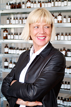 odor artist Sissel Tolaas in her Berlin lab, photographed by foto di matti